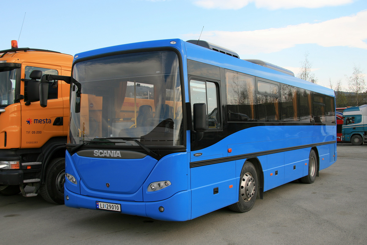 10.8 metres Scania OmniLine (IK 310 IB4x2NB) at Scania in Trondheim, Norway. Originally built as a demonstrator for Italy, hence the colour.